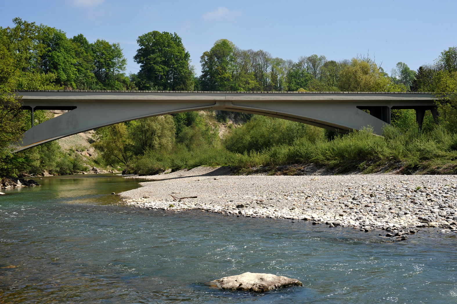 Bridge over the Thur near Felsegg by Robert Maillart, built 1933; St. Gallen, Switzerland.